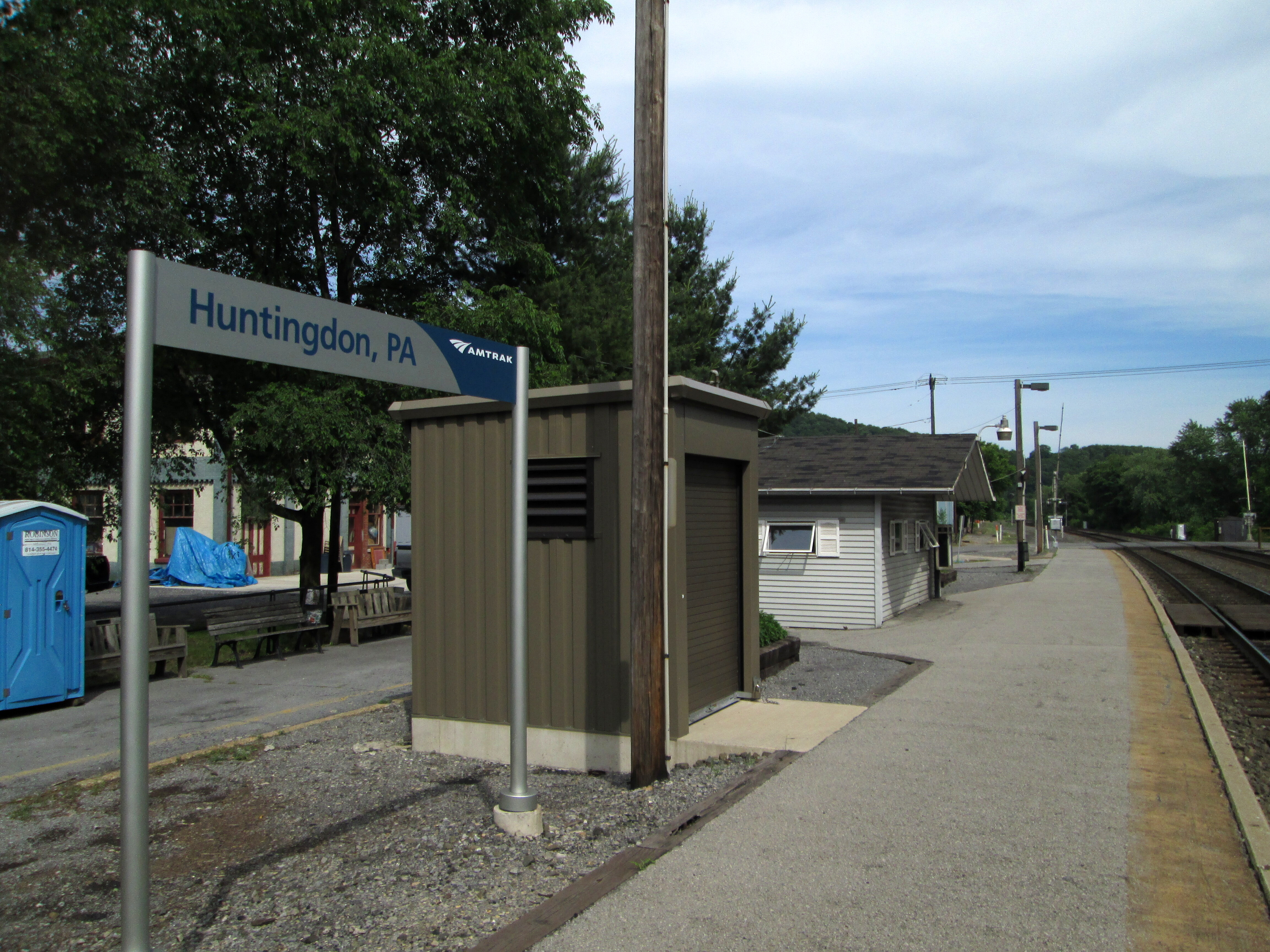 The current-day Huntingdon Amtrak station in the city of Huntingdon, Pennsylvania.